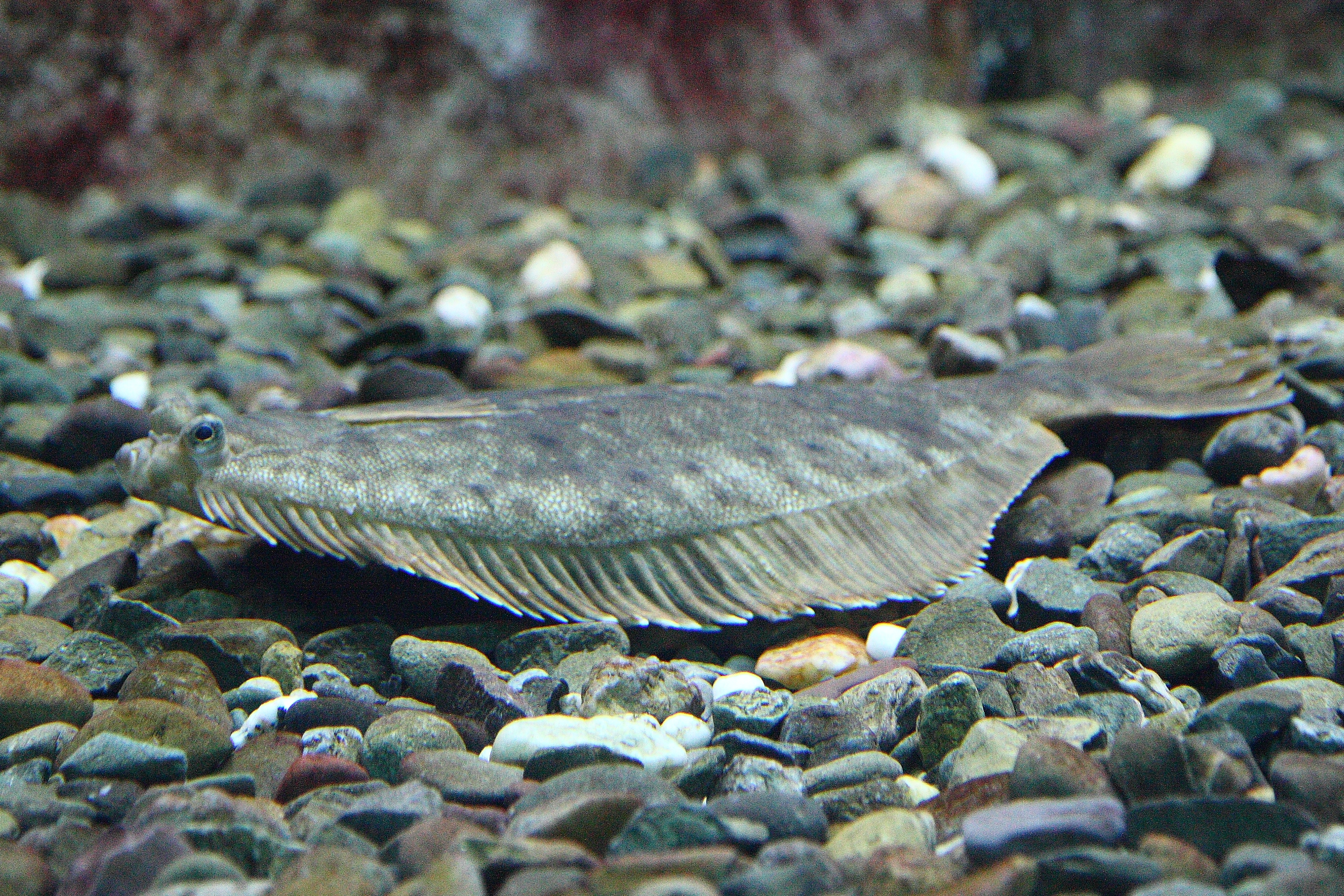 Hippoglossus hippoglossus, Aquarium du Québec